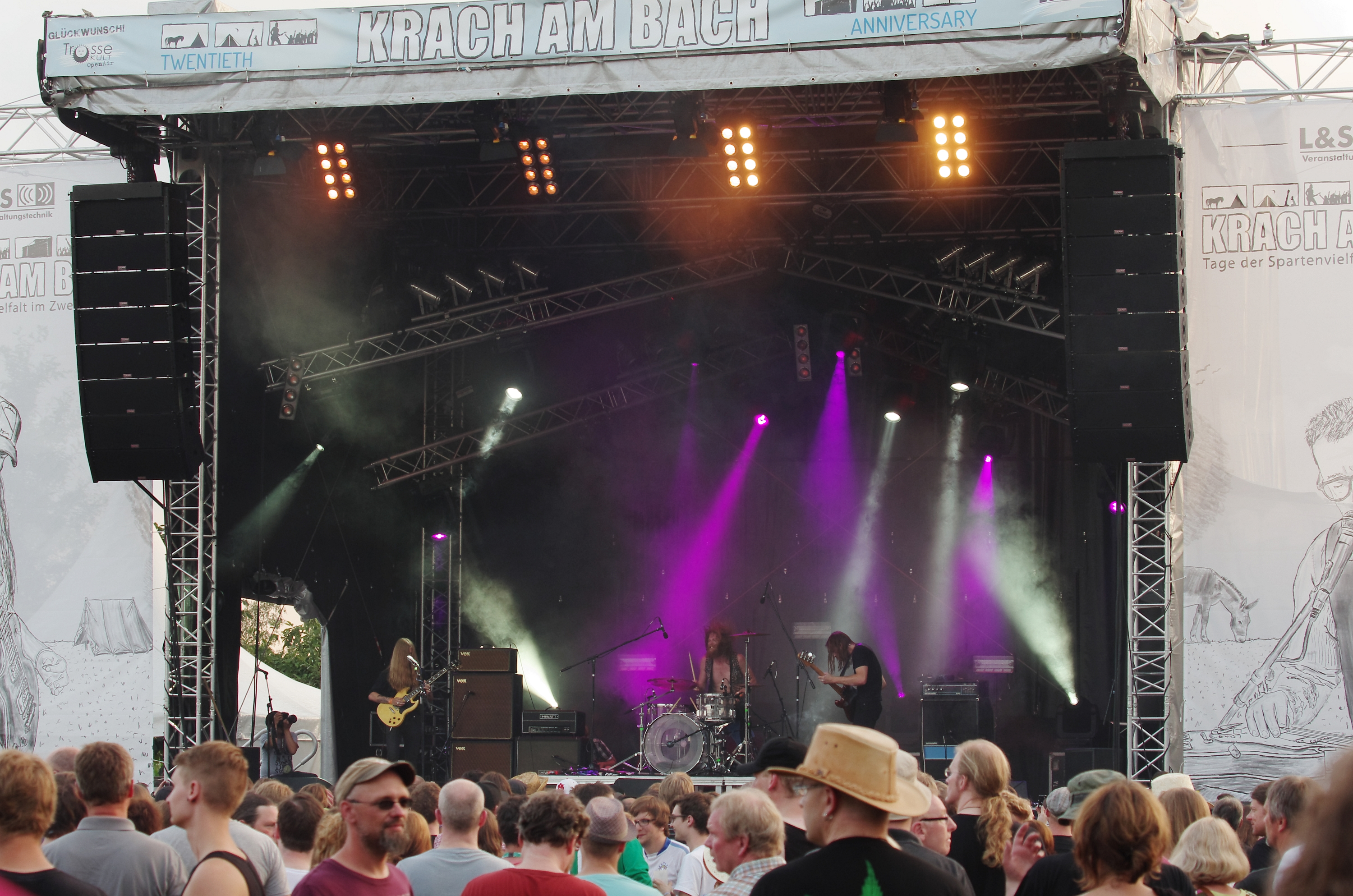 Kadavar is a German psychedelic rock band from Berlin. Lineup: Christoph „Lupus“ Lindemann - vox, git, Simon „Dragon” Bouteloup - bass, Christoph „Tiger” Bartelt - drums